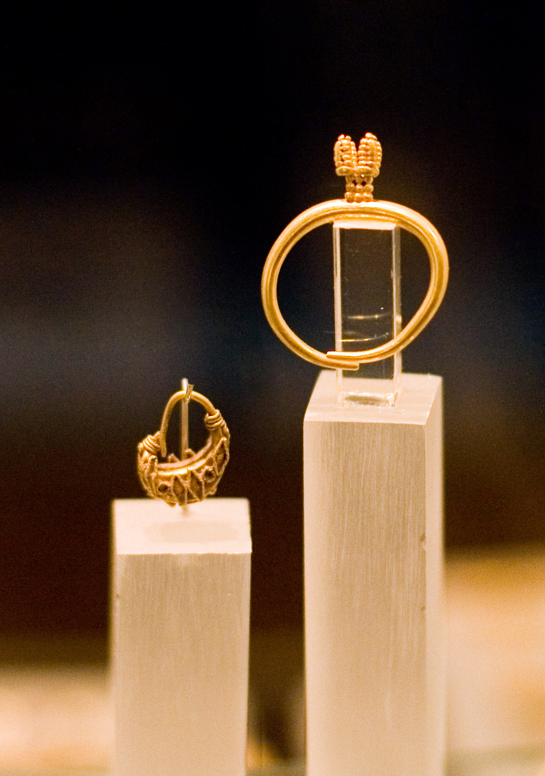 Urartian Jewelry (found during Karmir-Blur excavations)